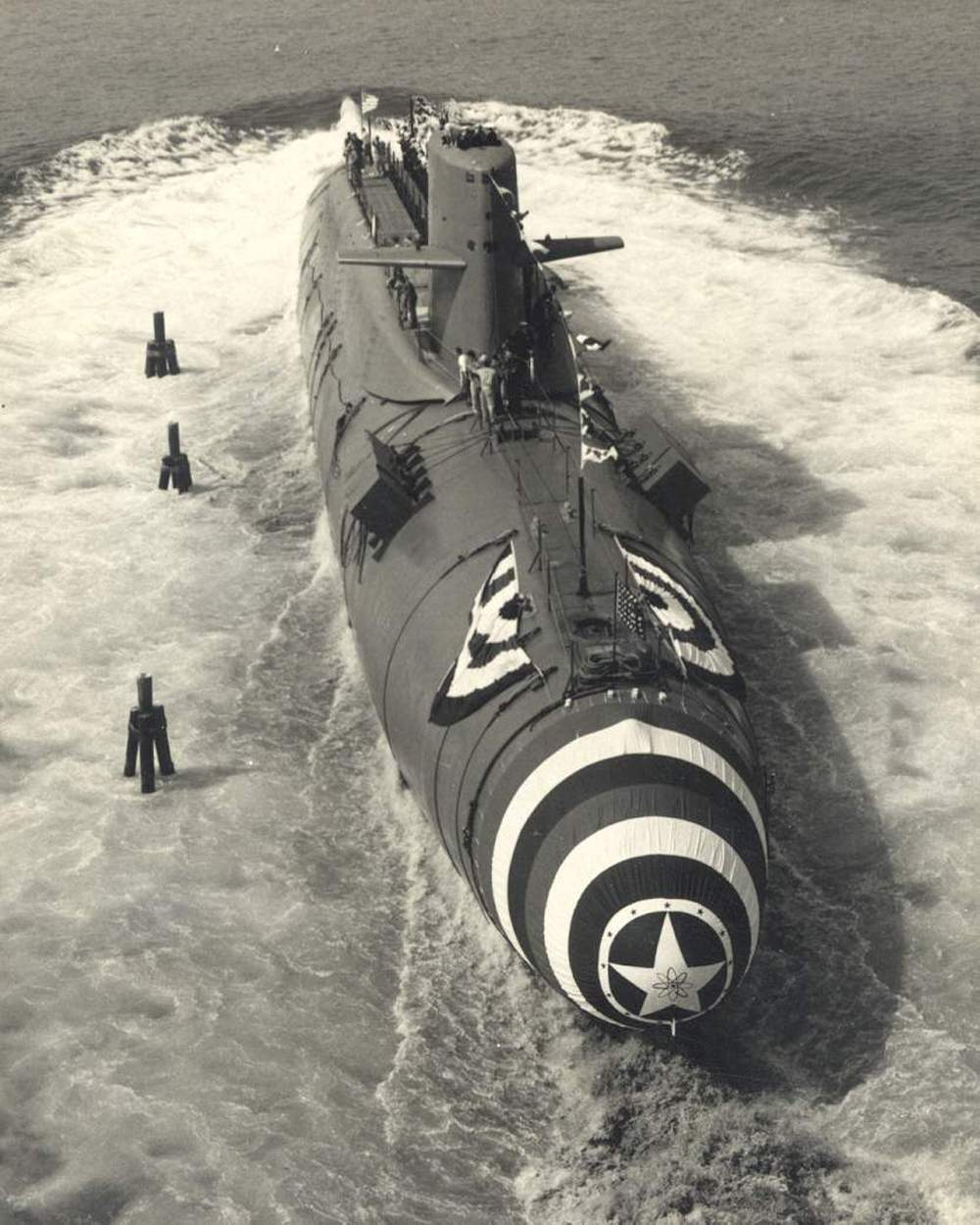 Launch of the U.S. Navy ballistic missile submarine USS Patrick Henry (SSBN-599) at General Dynamics Electric Boat, Groton, Connecticut (USA), on 22 September 1959.